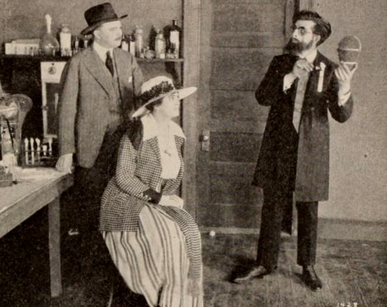 Still from the American film serial The Eagle's Eye (1918) with Fred C. Jones, Marguerite Snow, and William Bailey, on page 21 of the July 6, 1918 Exhibitors Herald.